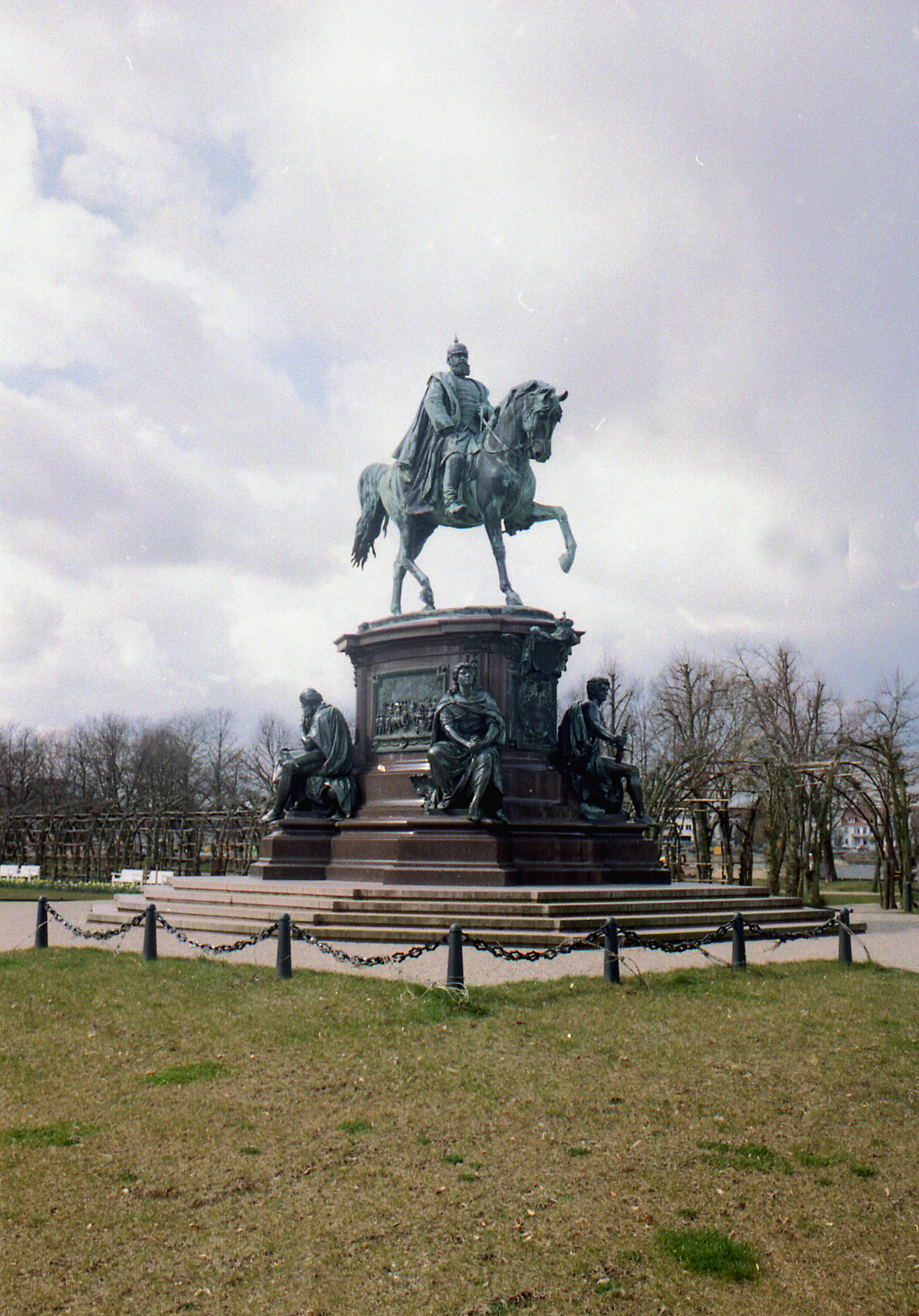 Equestrian statue of Friedrich Franz II. in the park of Schwerin Castle, Mecklenburg-Vorpommern, Germany